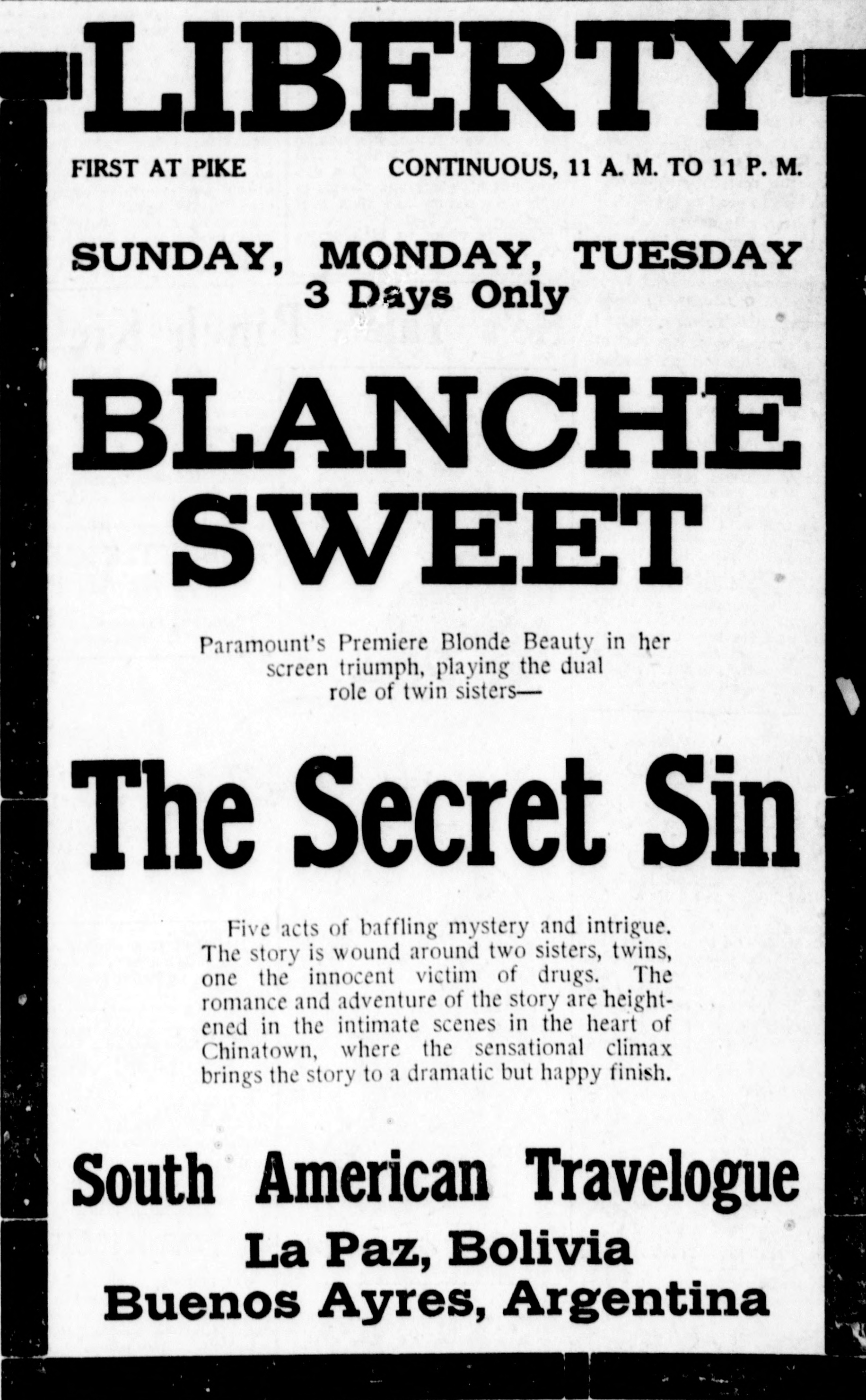 The Secret Sin is a surviving 1915 silent film drama produced by Jesse Lasky and distributed by Paramount Pictures. This is a newspaper advert for the film.